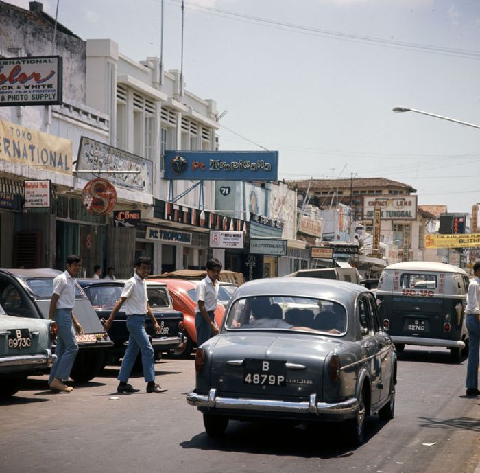 Street view